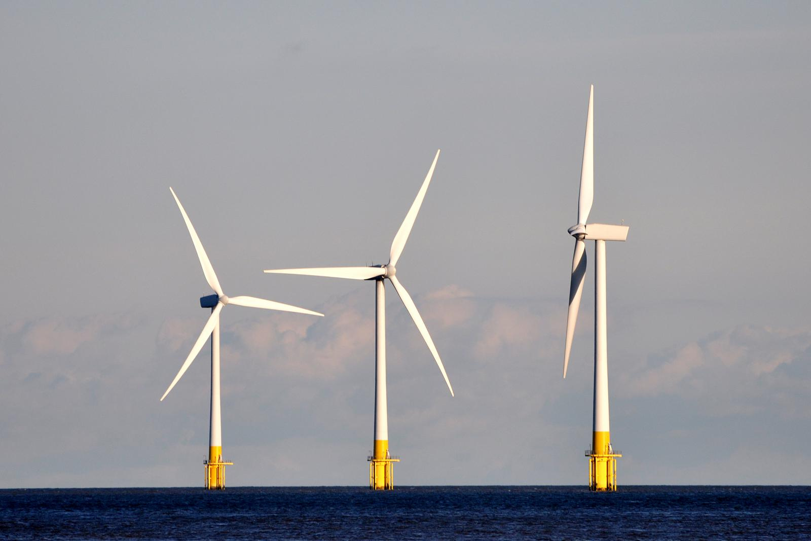 Three wind turbines